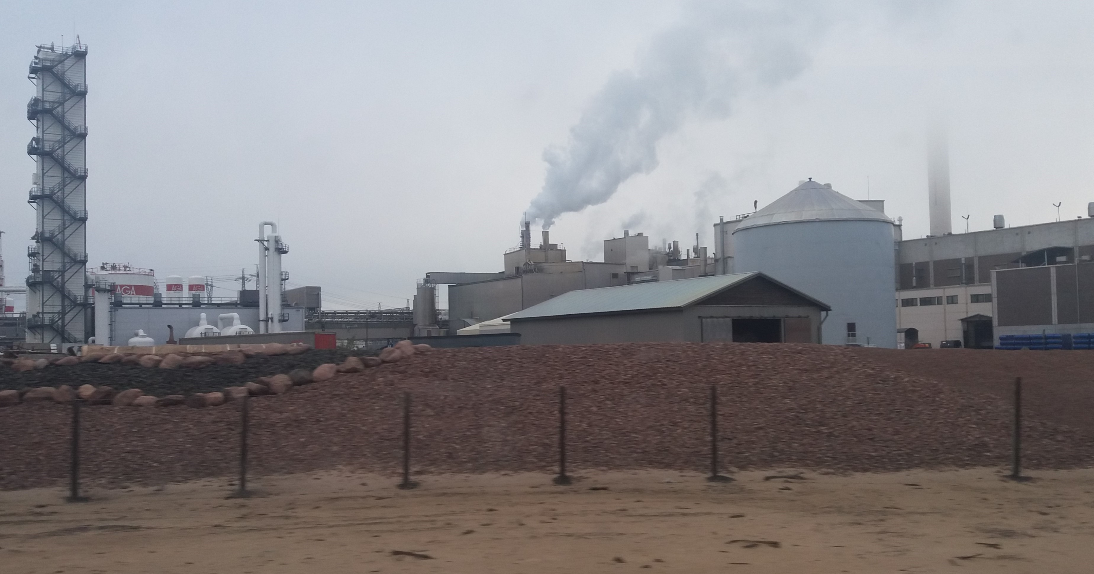 Industrial area in Harjavalta, Finland.